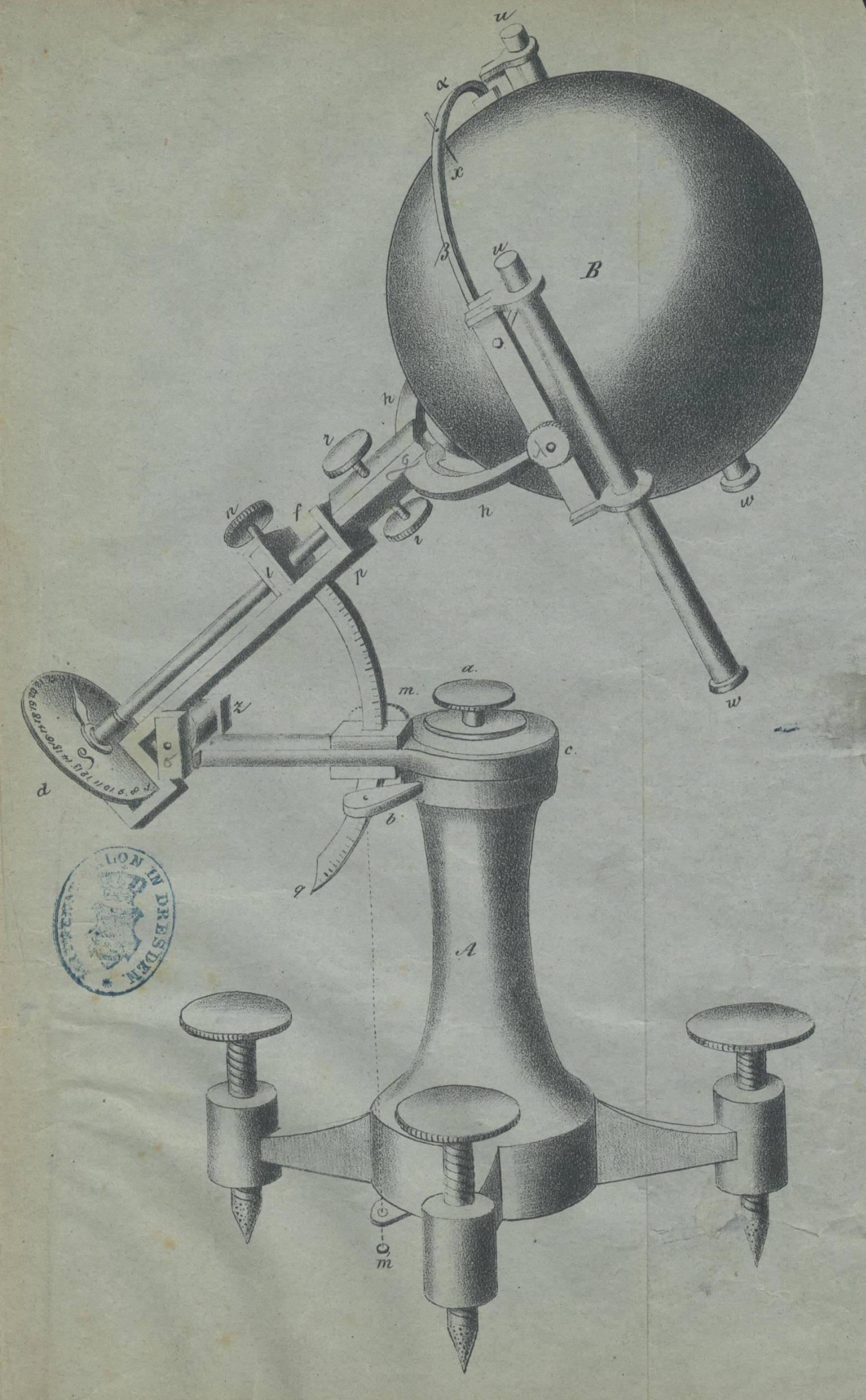 Sketch of the uranoscope designed by Josef Georg Böhm